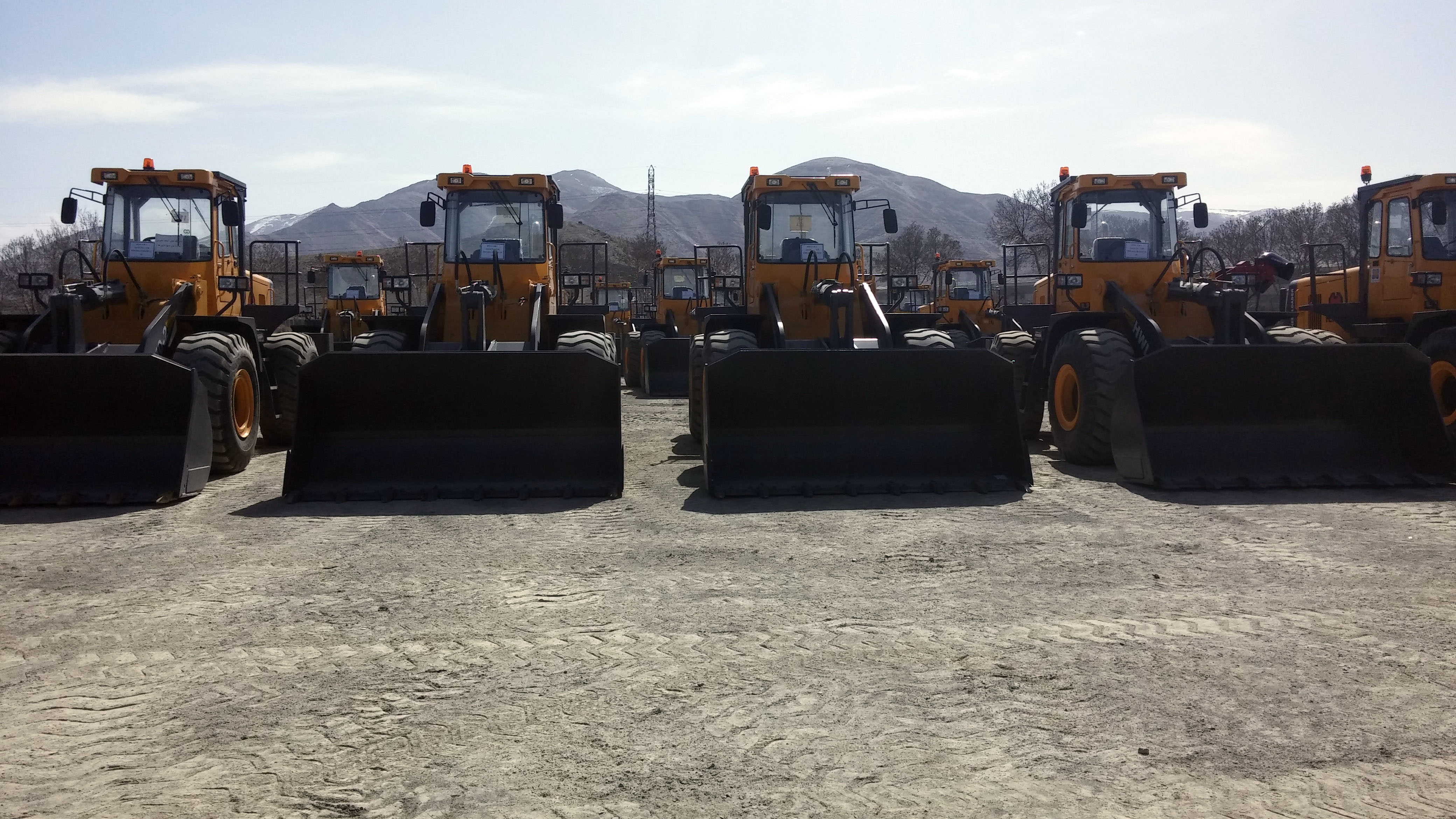 HEPCO HWL 110-2 wheel loaders.